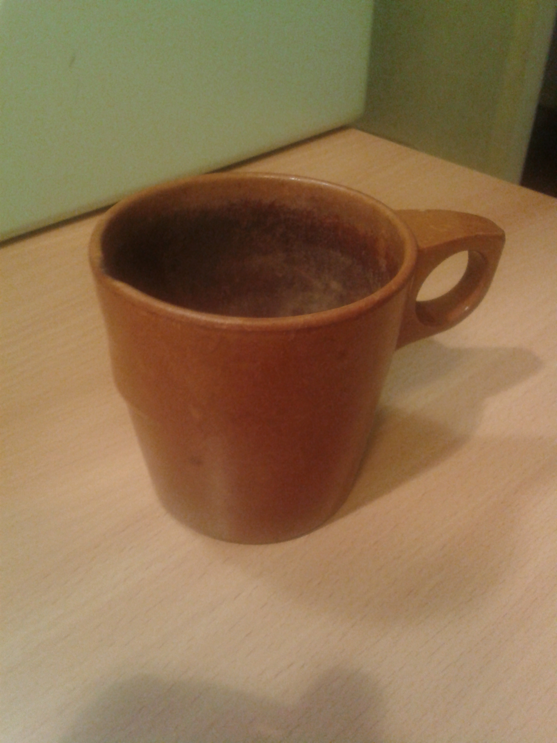 Ebonite mug